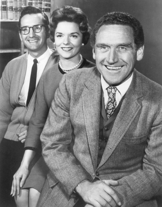 Publicity photo from the television program The Law and Mr. Jones. From right: James Whitmore, Janet De Gore (as Marsha Spear) and Conlan Carter.